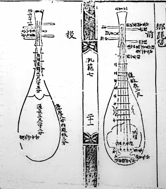 Illustration of a Korean Pipa from Akhak Gwebeom